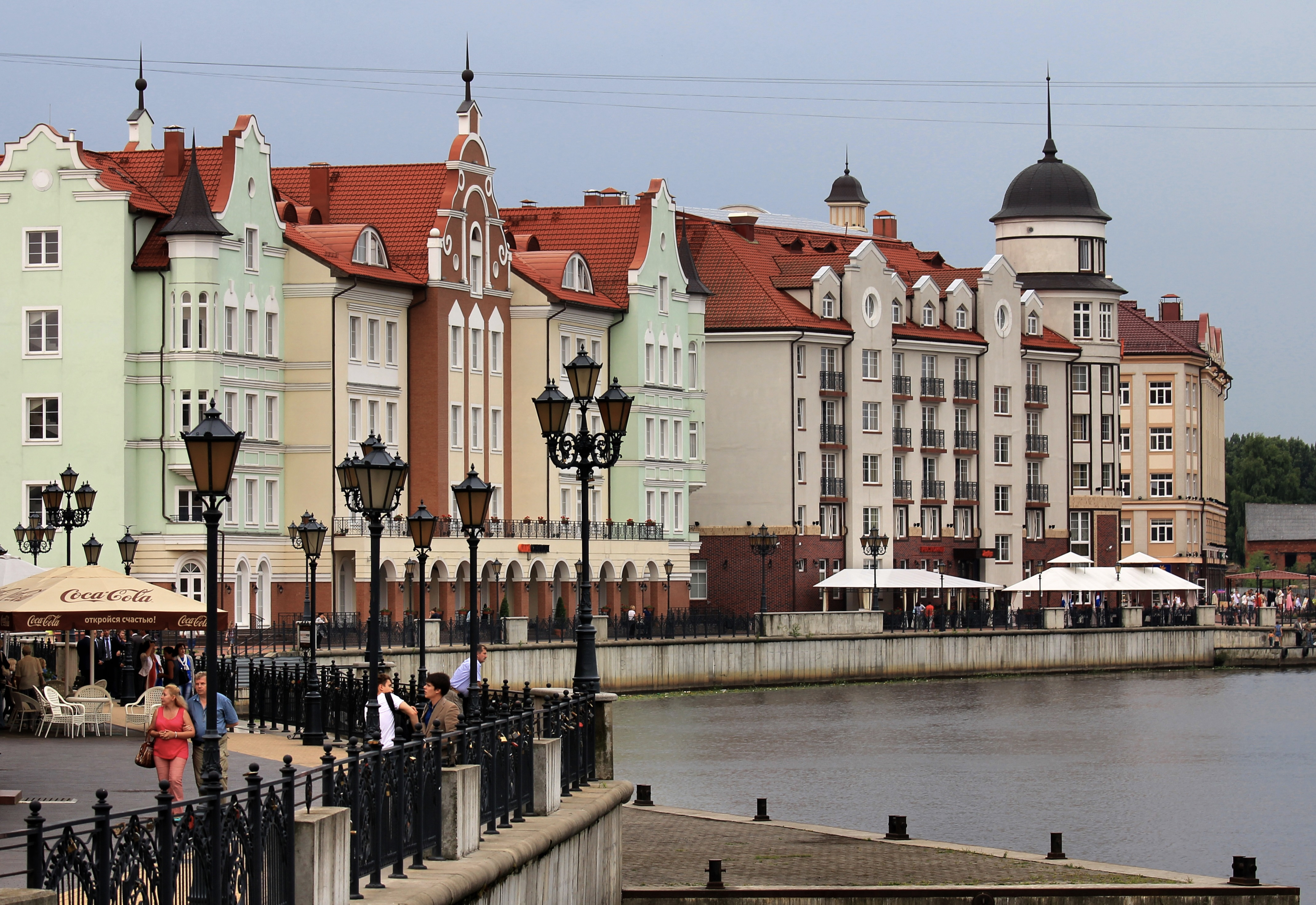 The historic city center of Kaliningrad.